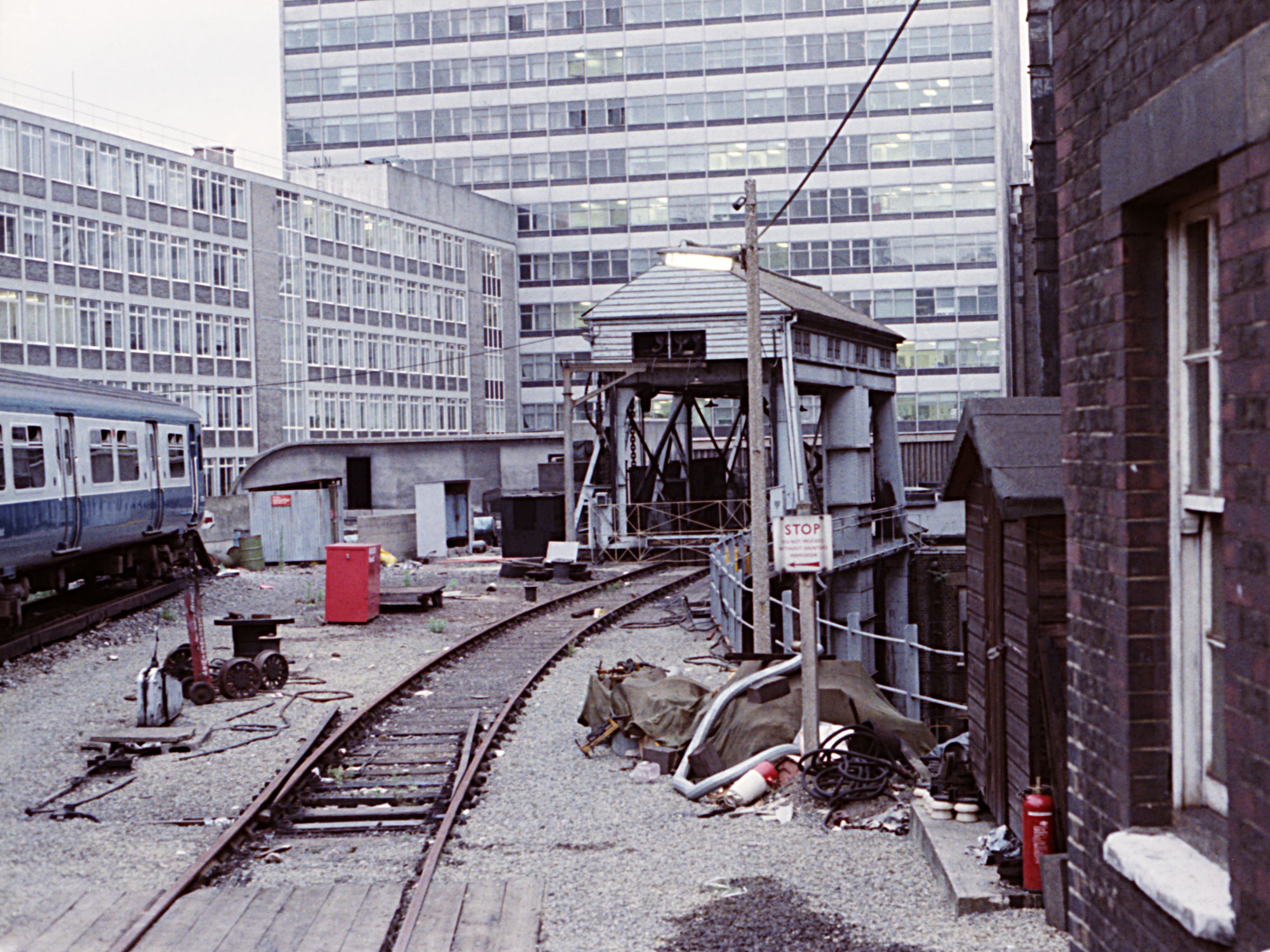 The old Armstrong Lift at Waterloo station, used to hoist Waterloo & City Line stock to the surface, in the days before the construction of Waterloo International terminal.